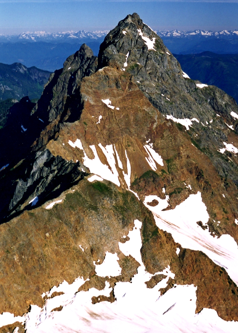 American Border Peak seen from Mount Larrabee. North Cascades. August 1999